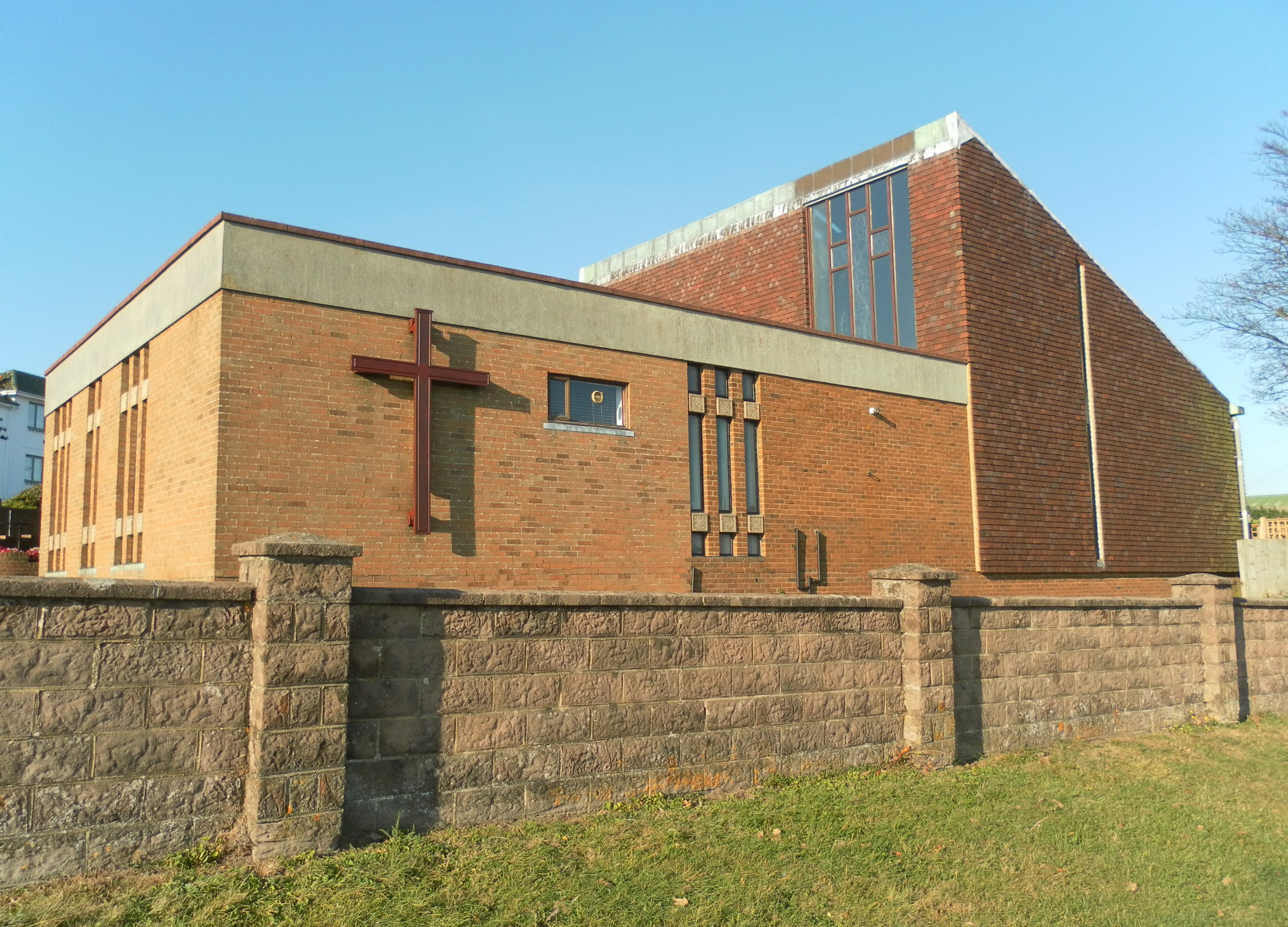 Holy Cross Church, Warren Road, Woodingdean, City of Brighton and Hove, England. An Anglican church serving the suburb of Woodingdean.